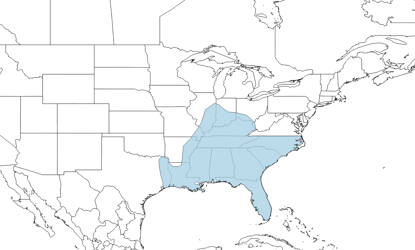 Built in QGIS using data (with permission) from IUCN.